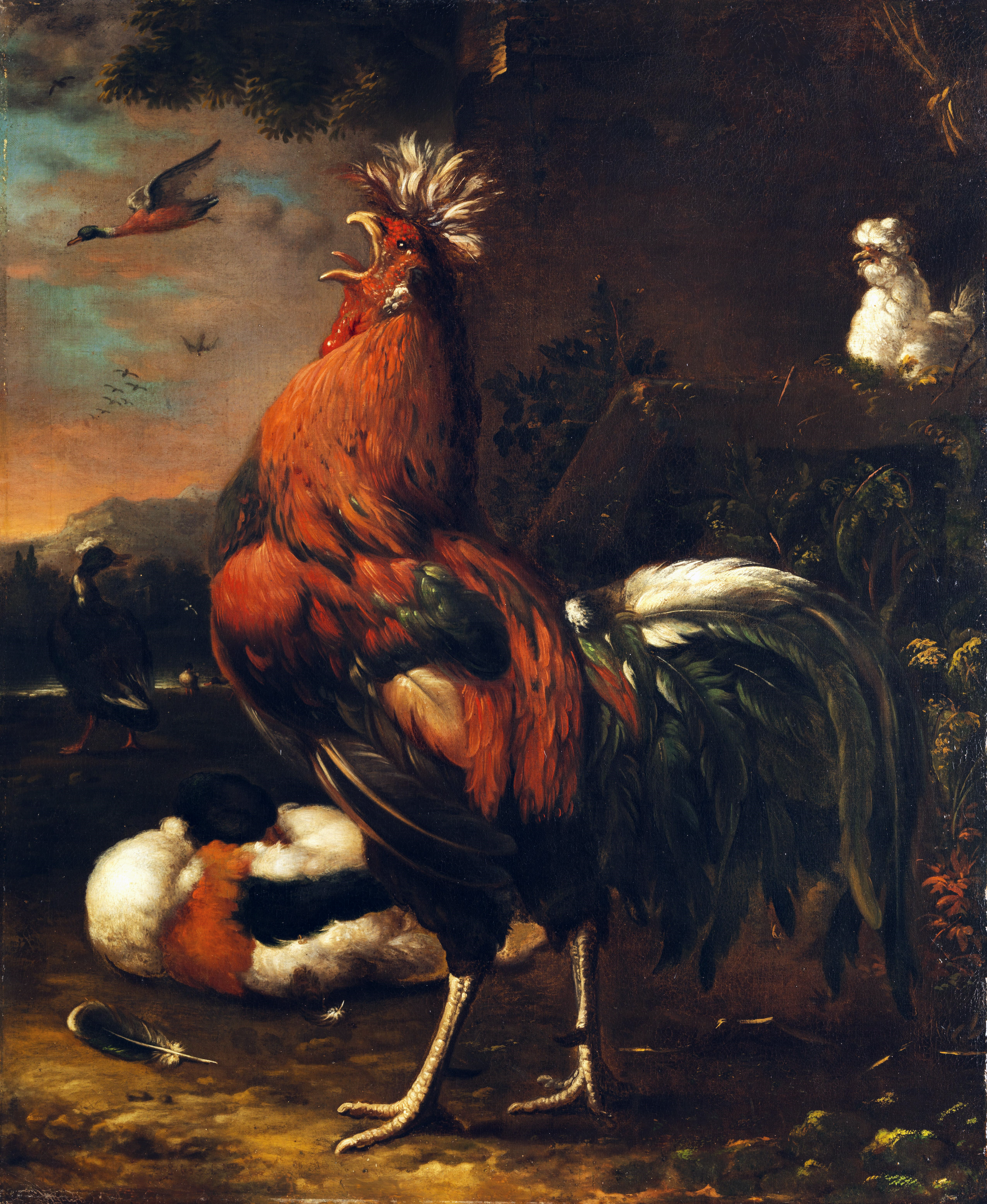 Proud rooster.